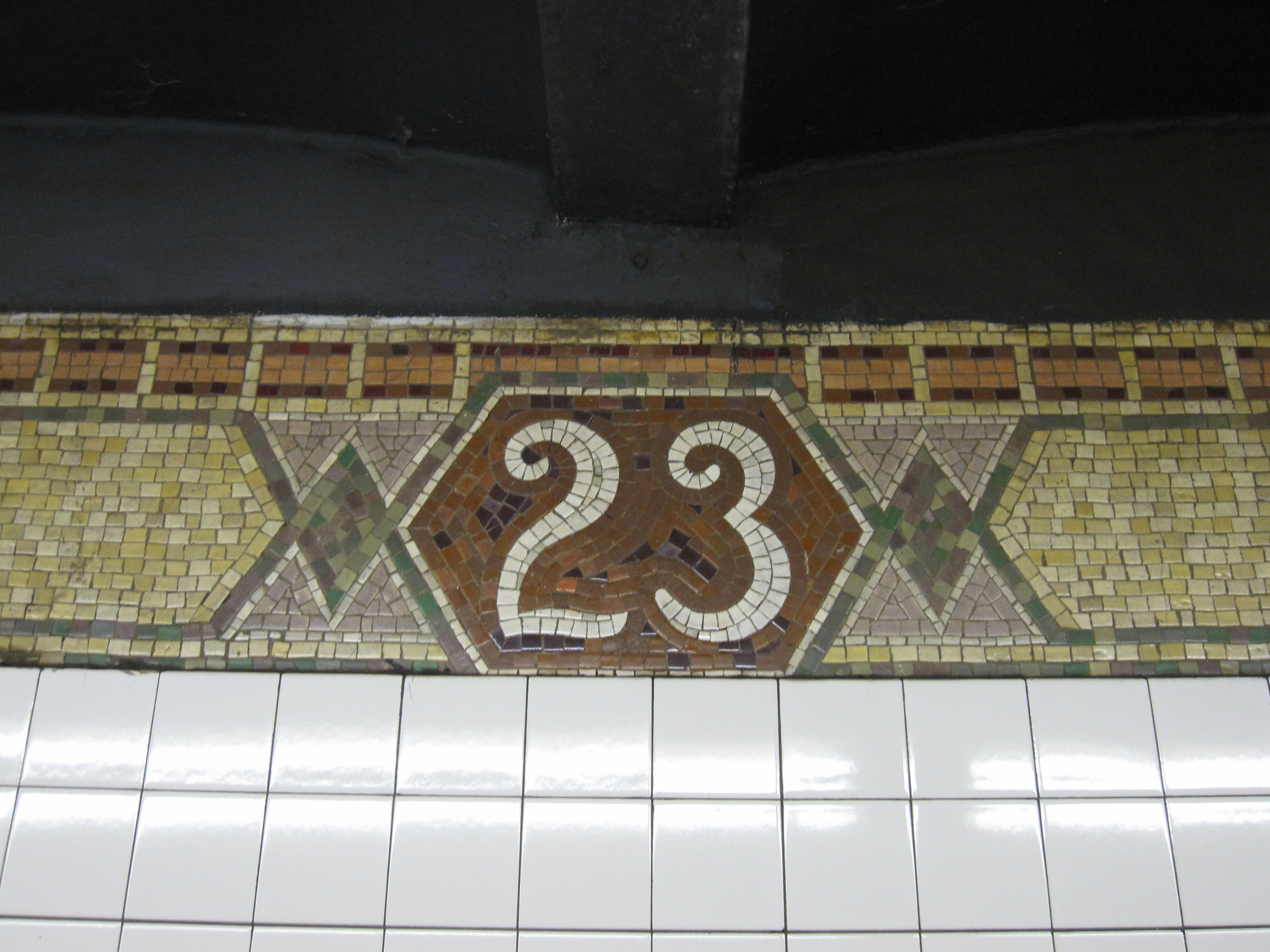 23rd Street IRT Broadway–Seventh Avenue